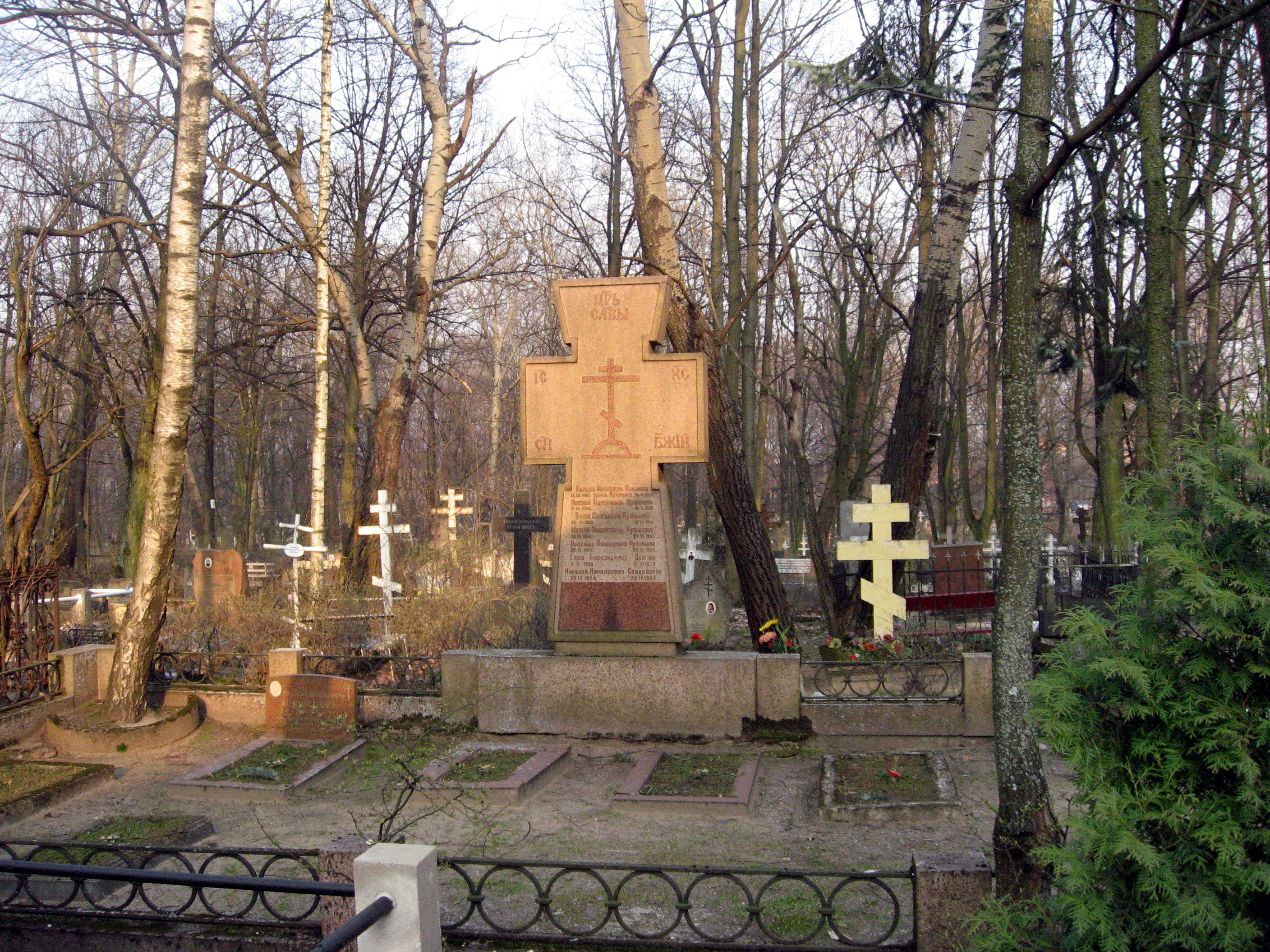 Riga. Ivanovo Cemetery. A monument to Russian-Soviet soldiers who died in 1941. Architect V. M. Shervinsky.